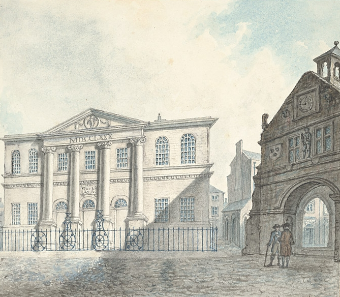 Town Hall Shrewsbury and the Old Market House, 1796